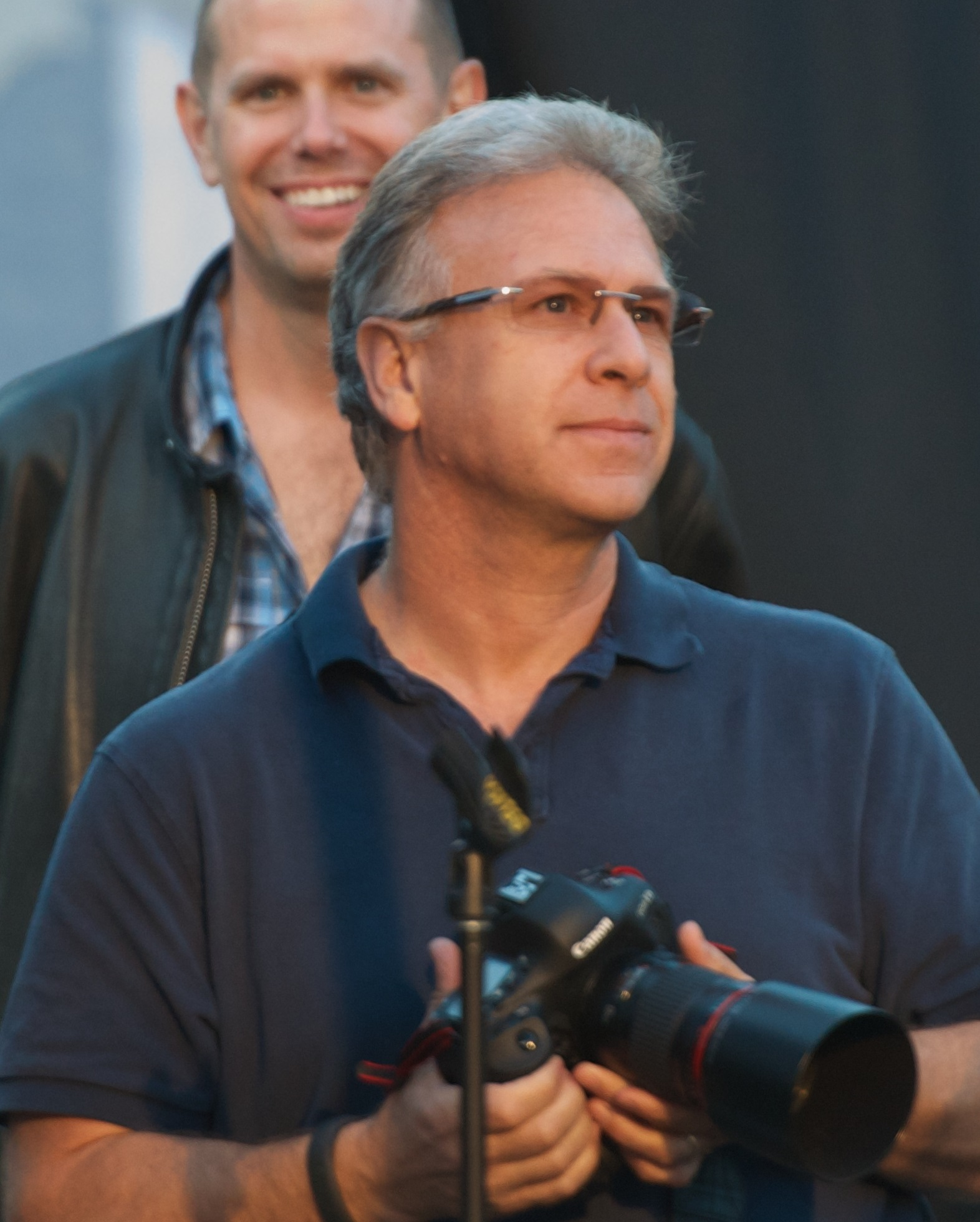 Apple Worldwide Developers Conference Bash 2012 Staring Neon Trees